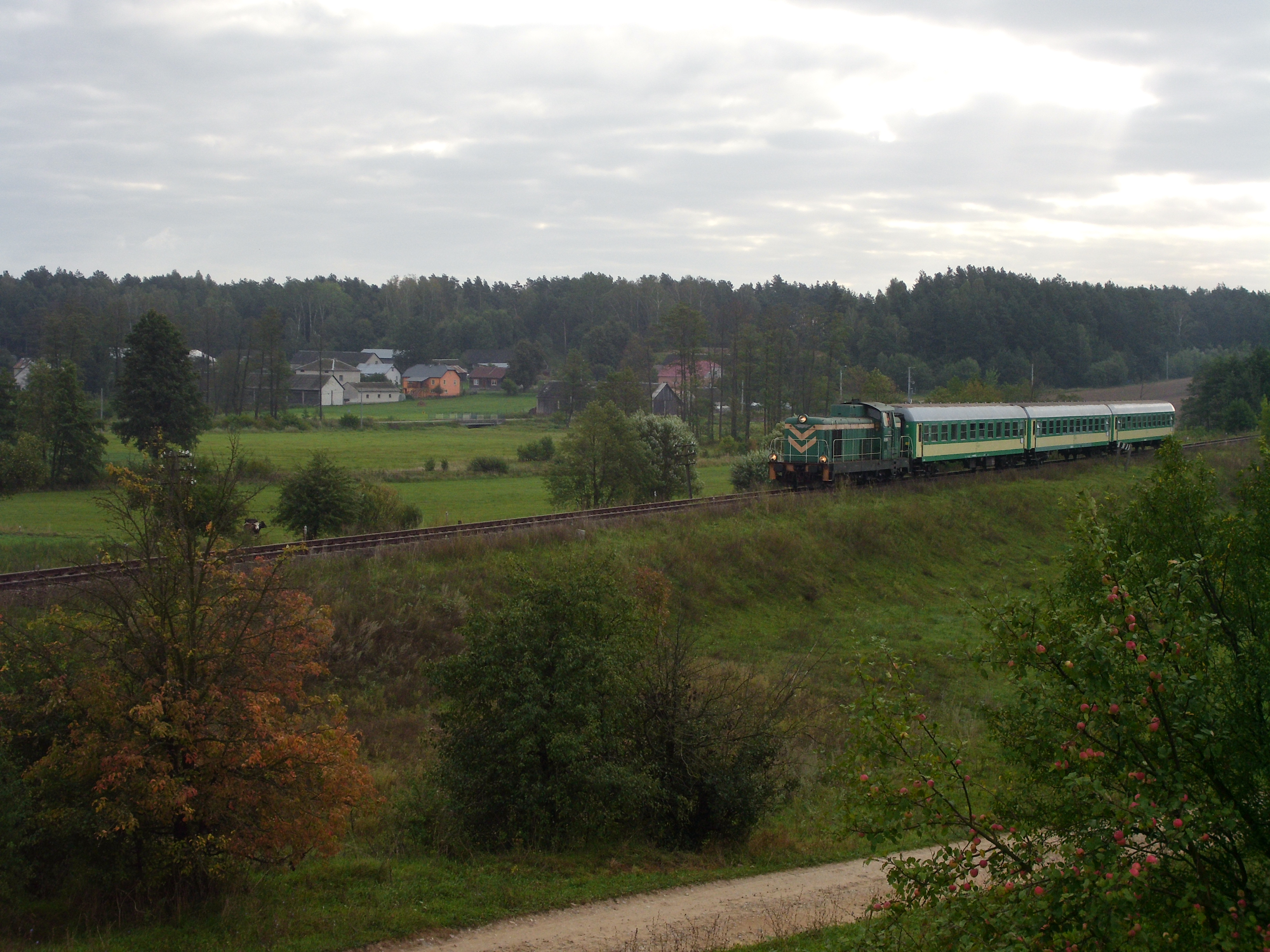 Tourist train on Ostrołęka – Łapy route in Poland between Kulesze Kościelne and Czarnowo-Undy. The photographer stood just outside Kulesze Kościelne village; the neighbouring Kulesze-Litewka is visible on the other side of the track.